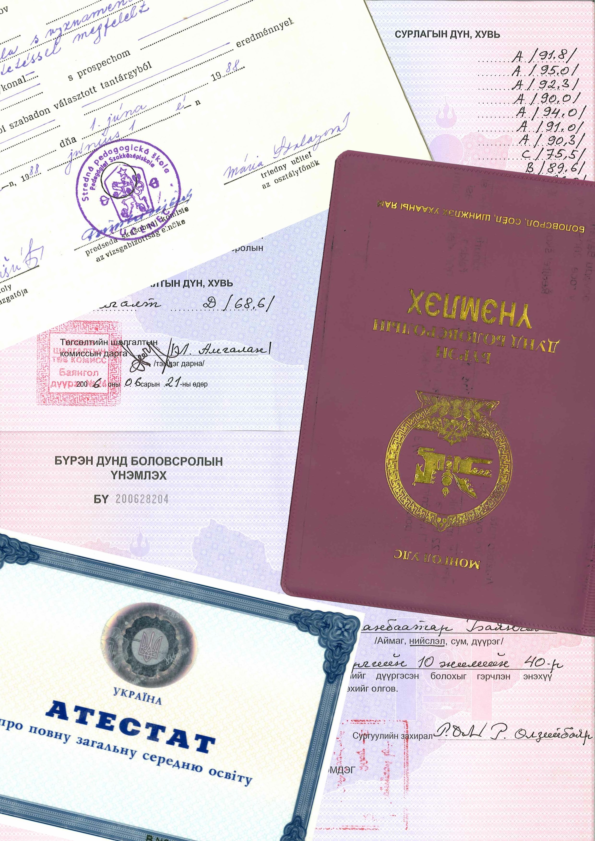 School leaving certificates.